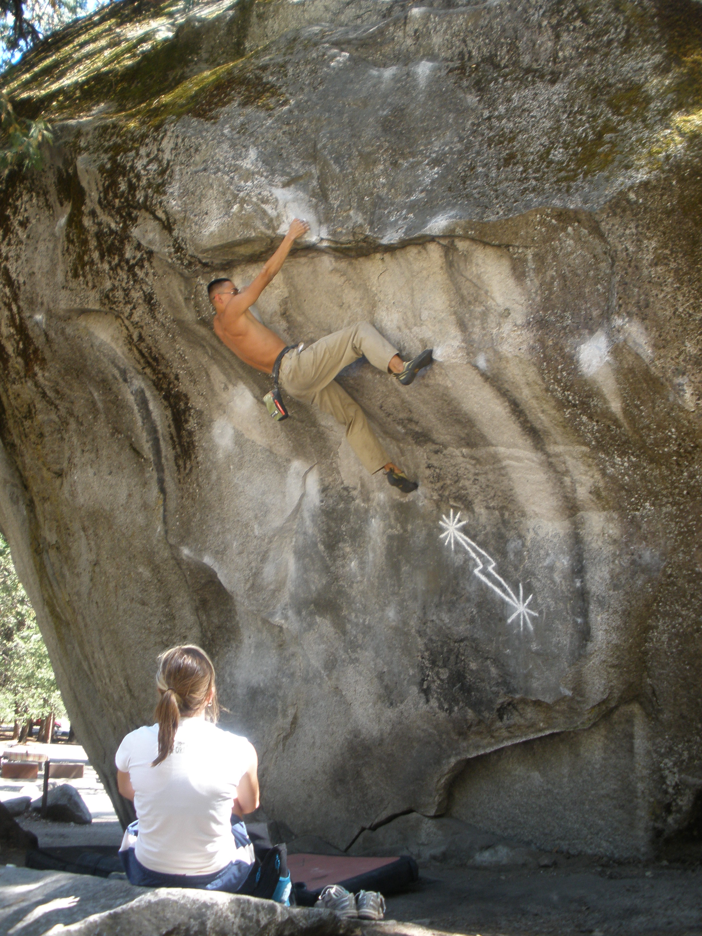 Michael Rael Armas sending Midnight Lightning' - a climber on the bouldering route 'Midnight Lightning' in Yosemite